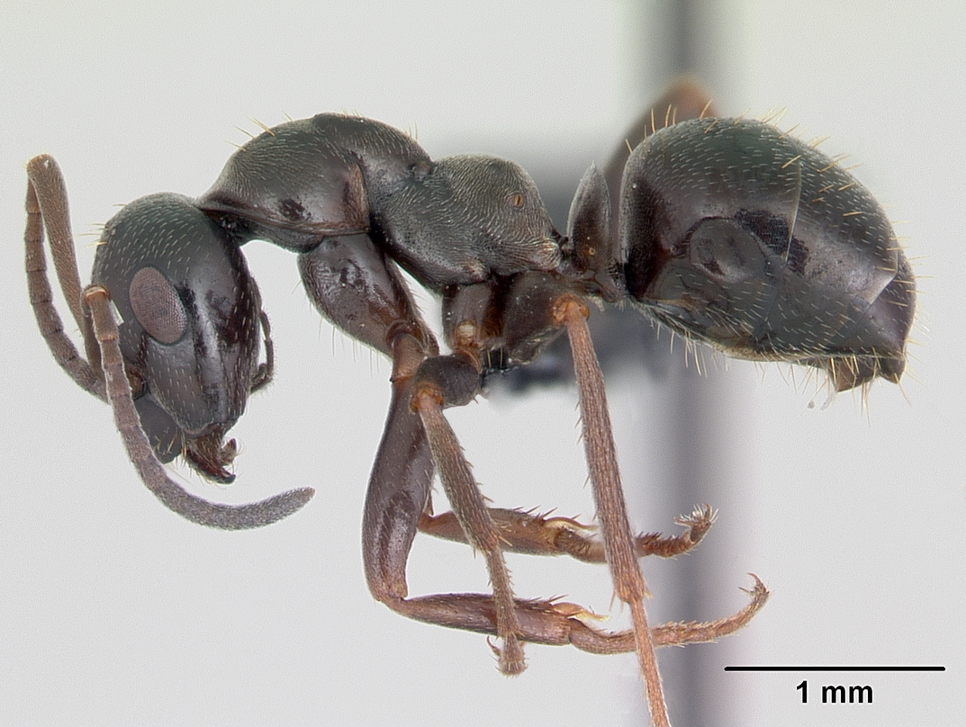 Profile view of ant Formica picea specimen casent0173868.